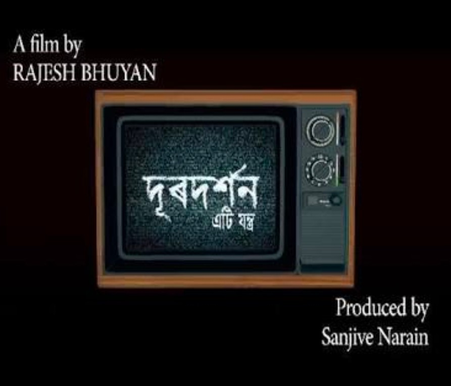 This is a poster of an Assamese film.